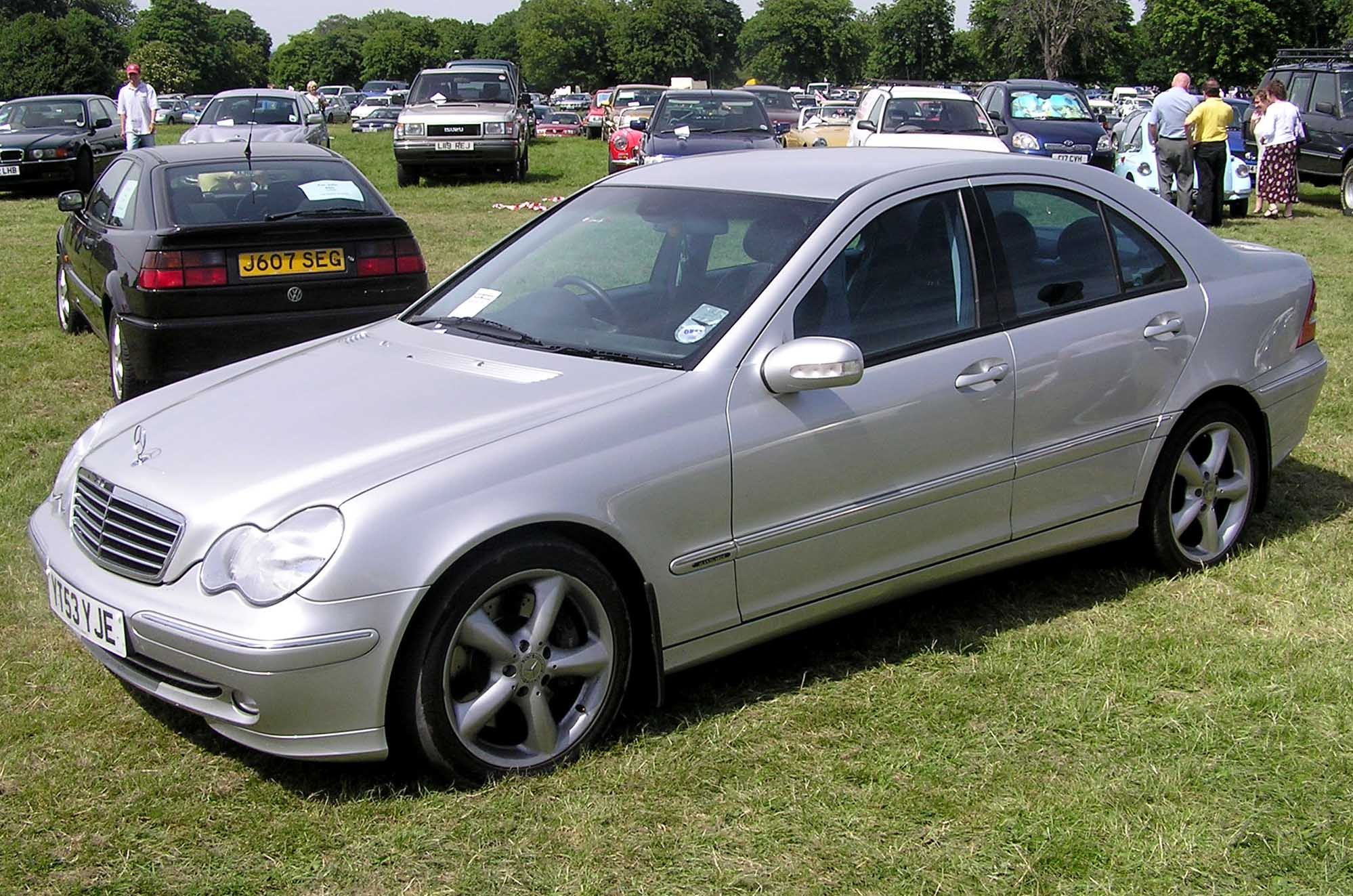 2003 Mercedes-Benz C270 CDi at Bristol Car Show, The Downs, Bristol, England.